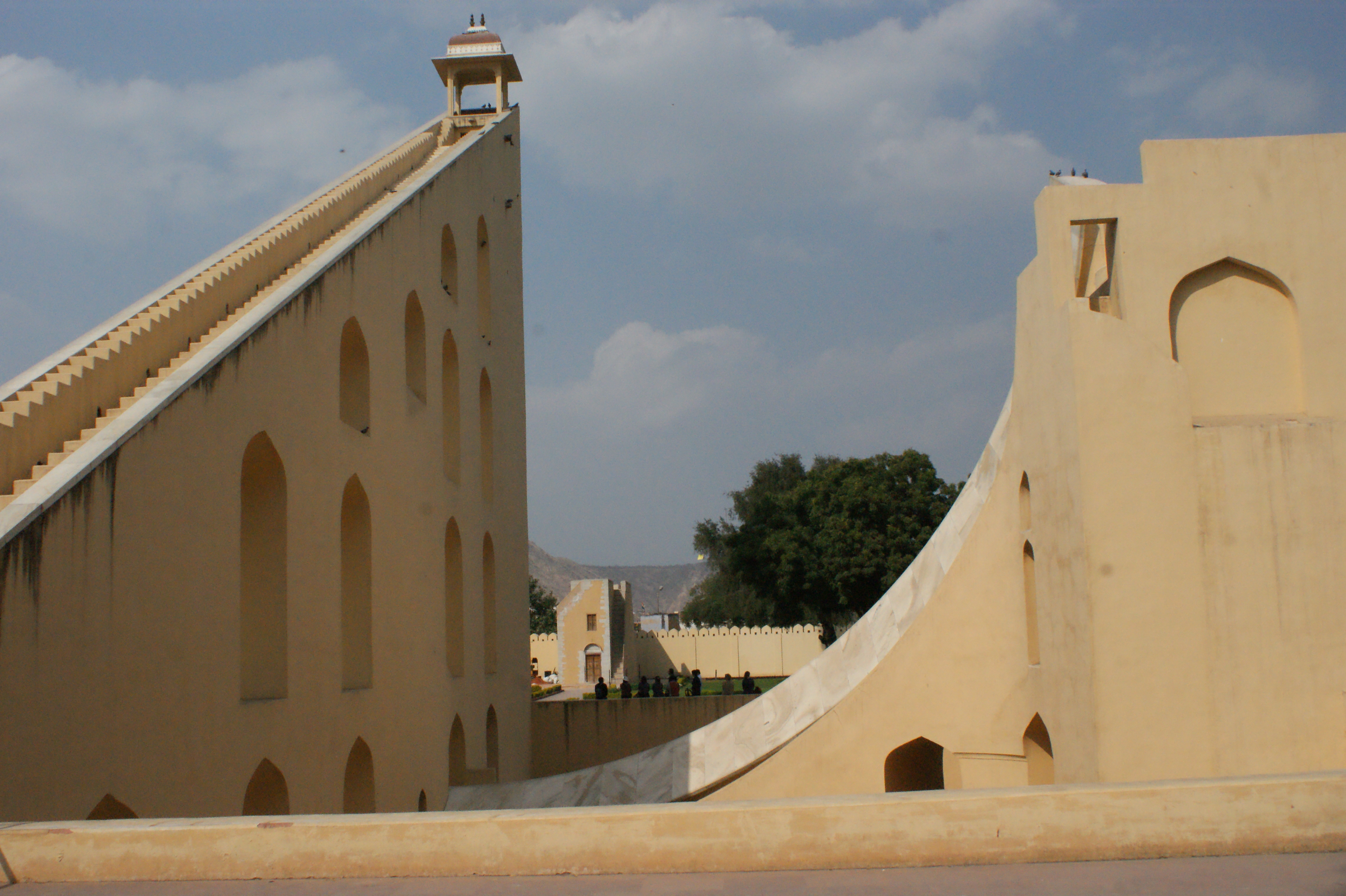 Jantar Mantar in Jaipur (India): an astronomic observation site, built in the early 18th century; 2010: World Heritage Site